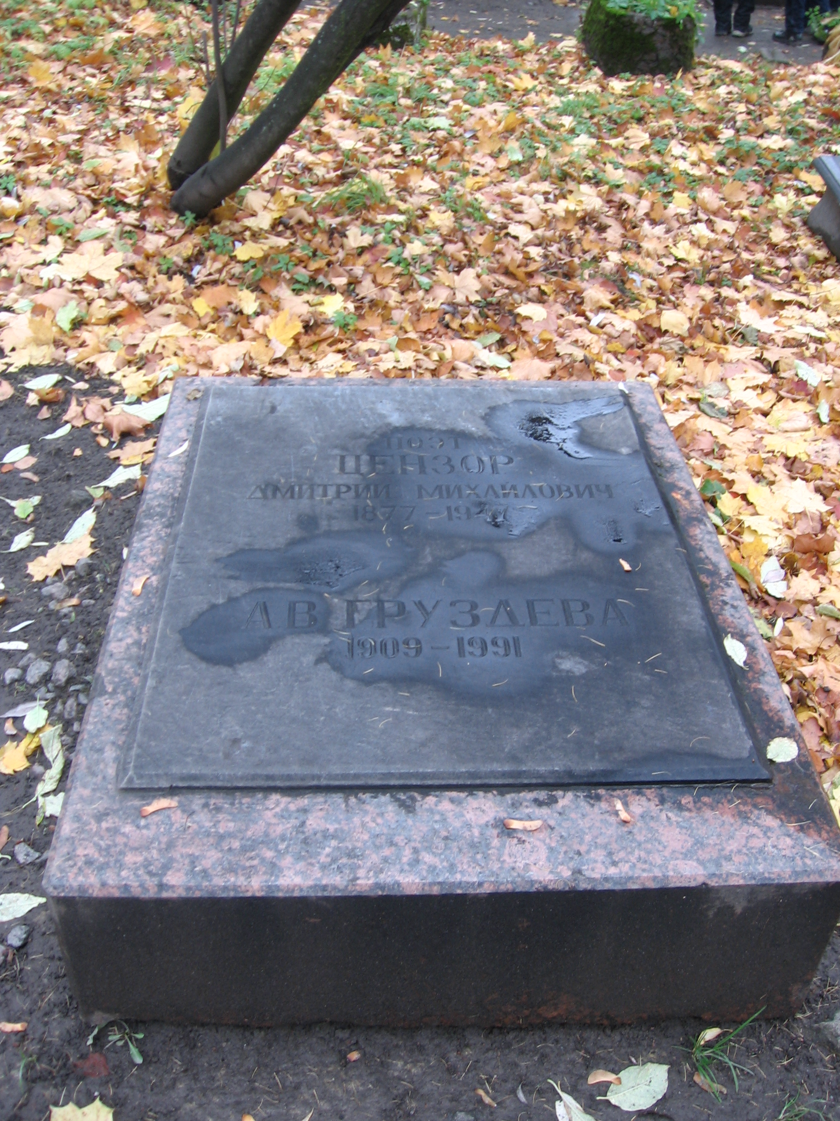 Grave of Dmitry Tsenzor